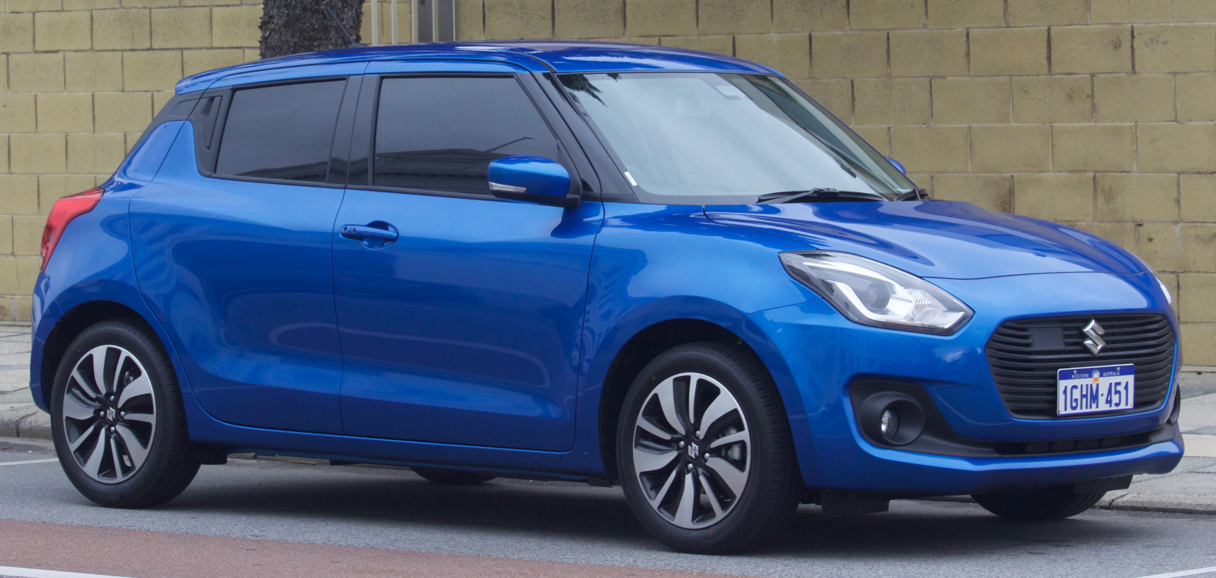 2017 Suzuki Swift (AZ) GLX Turbo 5-door hatchback. Photographed in Fremantle, Western Australia, Australia.